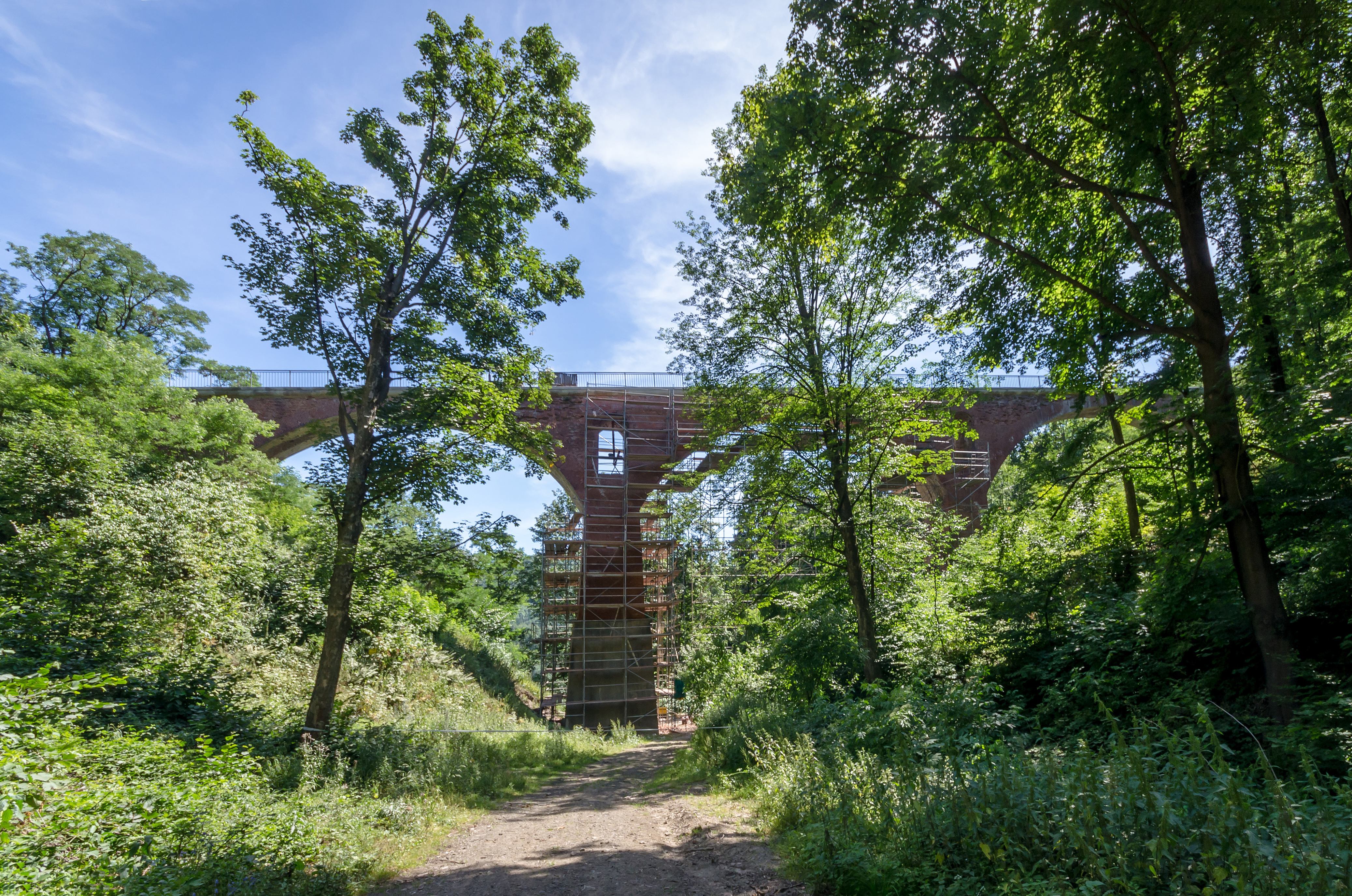 Railway viaduct in Żdanów, Poland